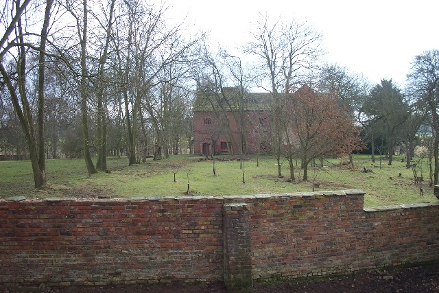 Tatton Old Hall An over-the-wall look at the Westerly elevation.